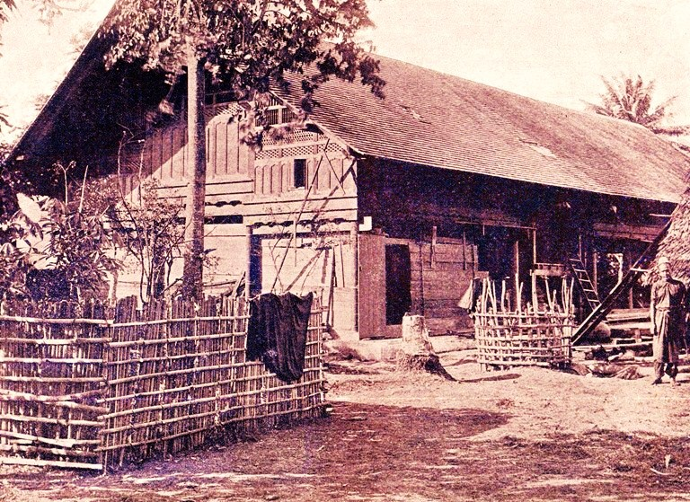 The house of Teuku Umar and Cut Nyak Dhien in Lampisang, Aceh